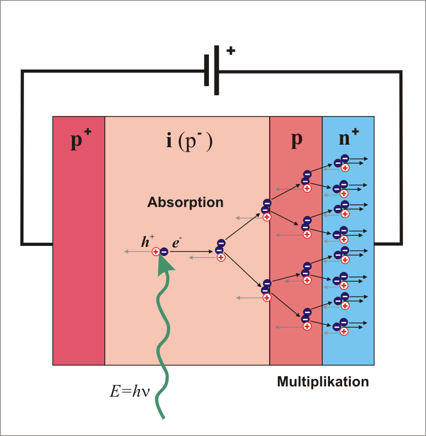 Charge carrier multiplication in a Si-Avalanche-Photo-Diode (APD) under reverse voltage. Colors indicate doping of the corresponding layer.